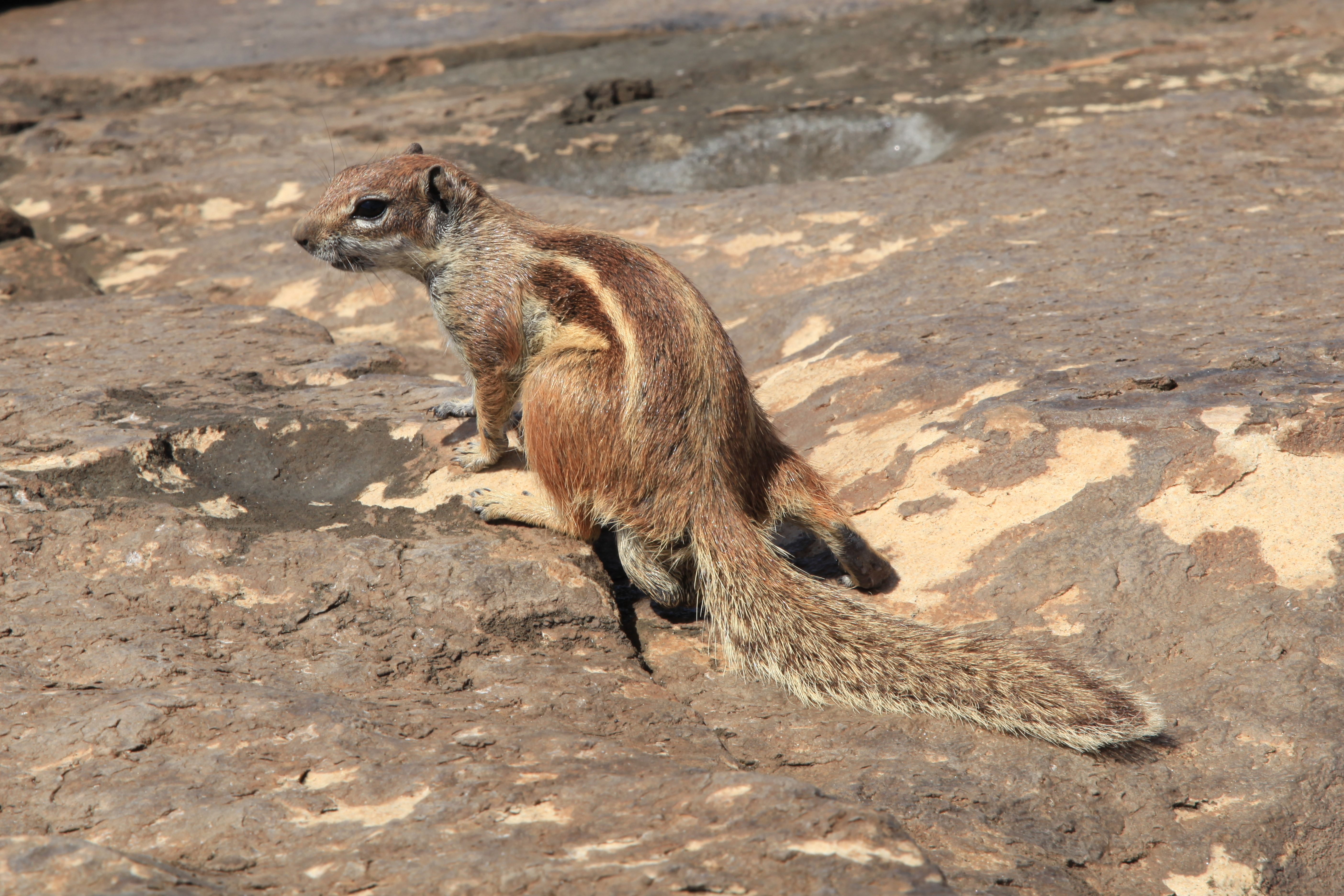 Atlantoxerus getulus at Punta Guadalupe in La Pared, Pájara, Fuerteventura, Canary Islands